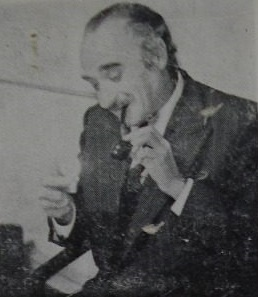 Jordán de la Cazuela- guionista y periodista argentino